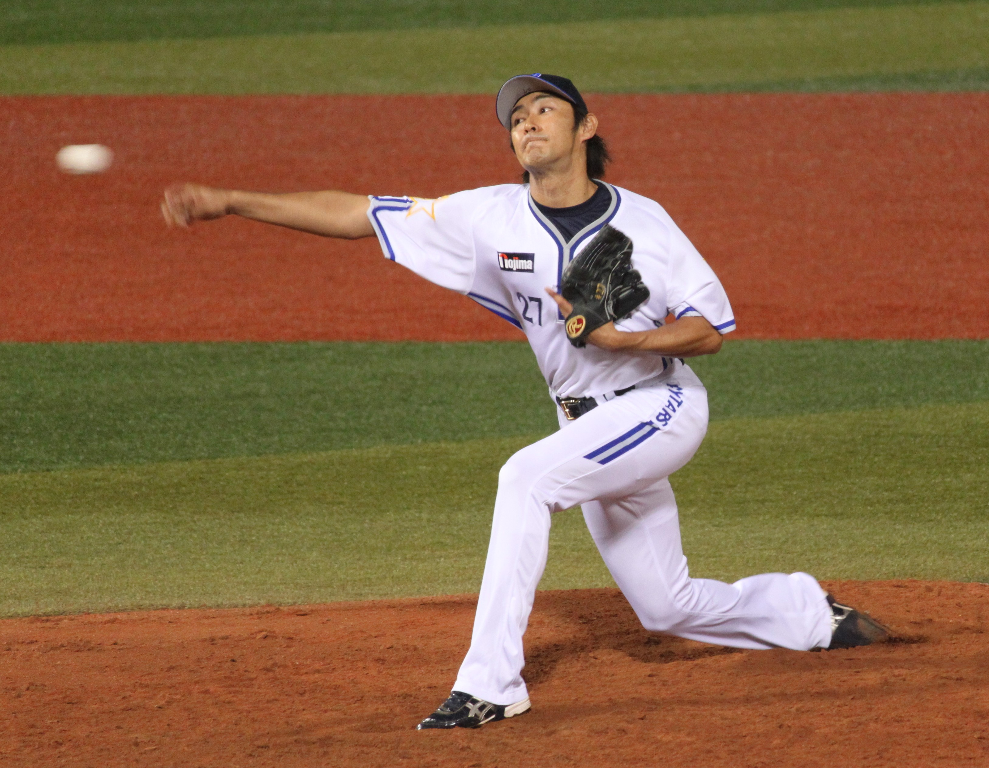 Shintaro Ejiri, pitcher of the Yokohama BayStars, at Yokohama Stadium.